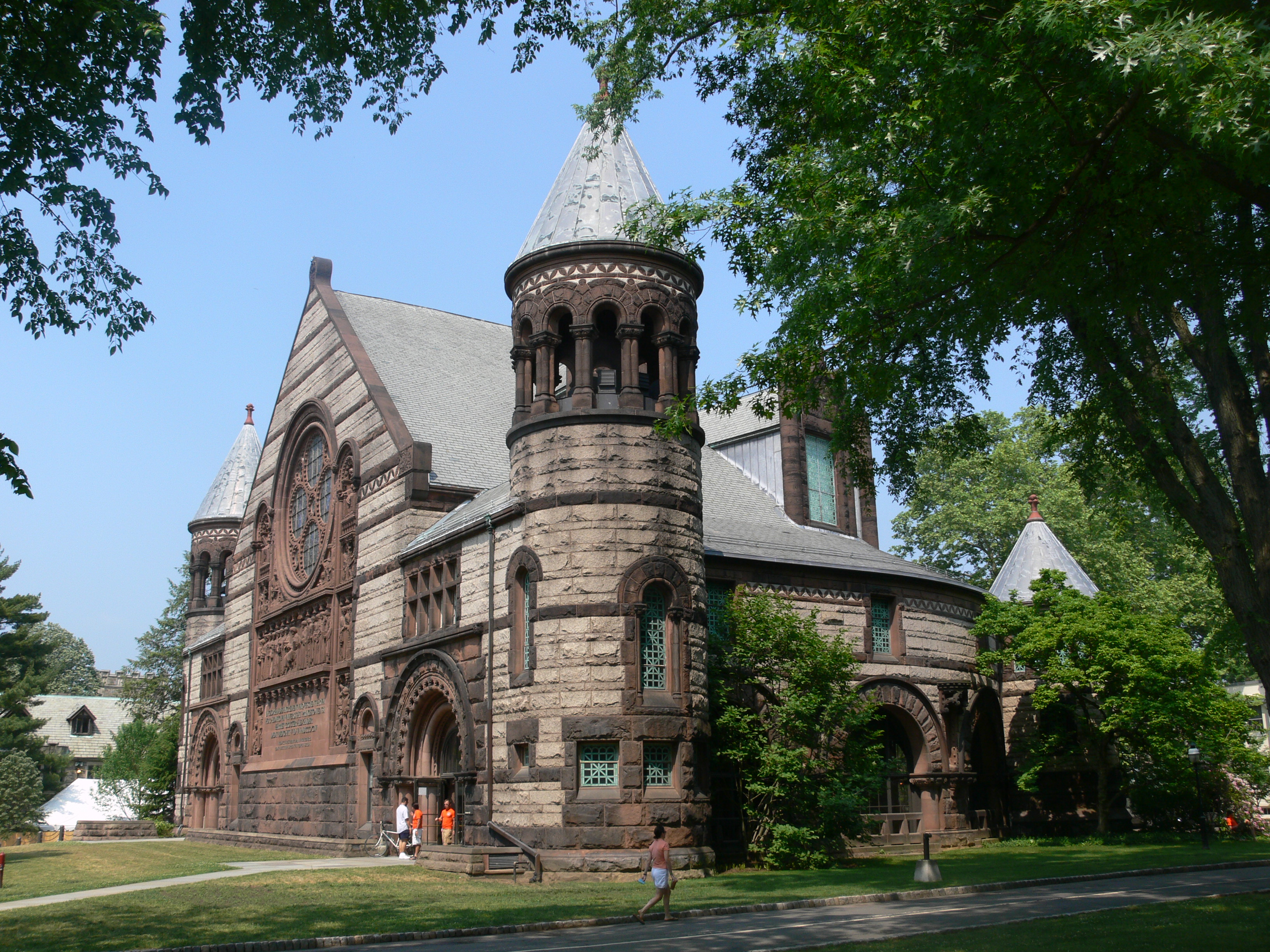 Alexander Hall; Princeton University, Princeton, New Jersey